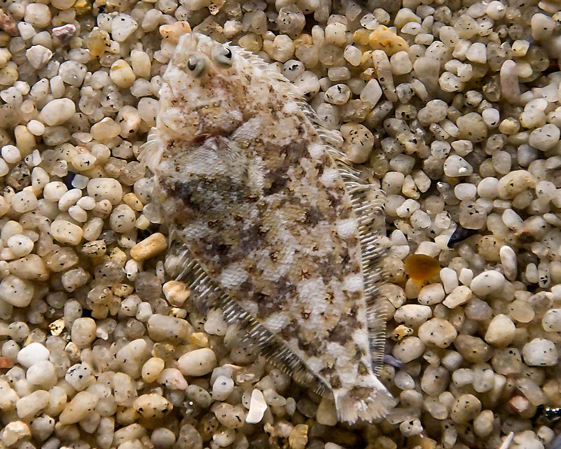 A flounder blends in with its surroundings.